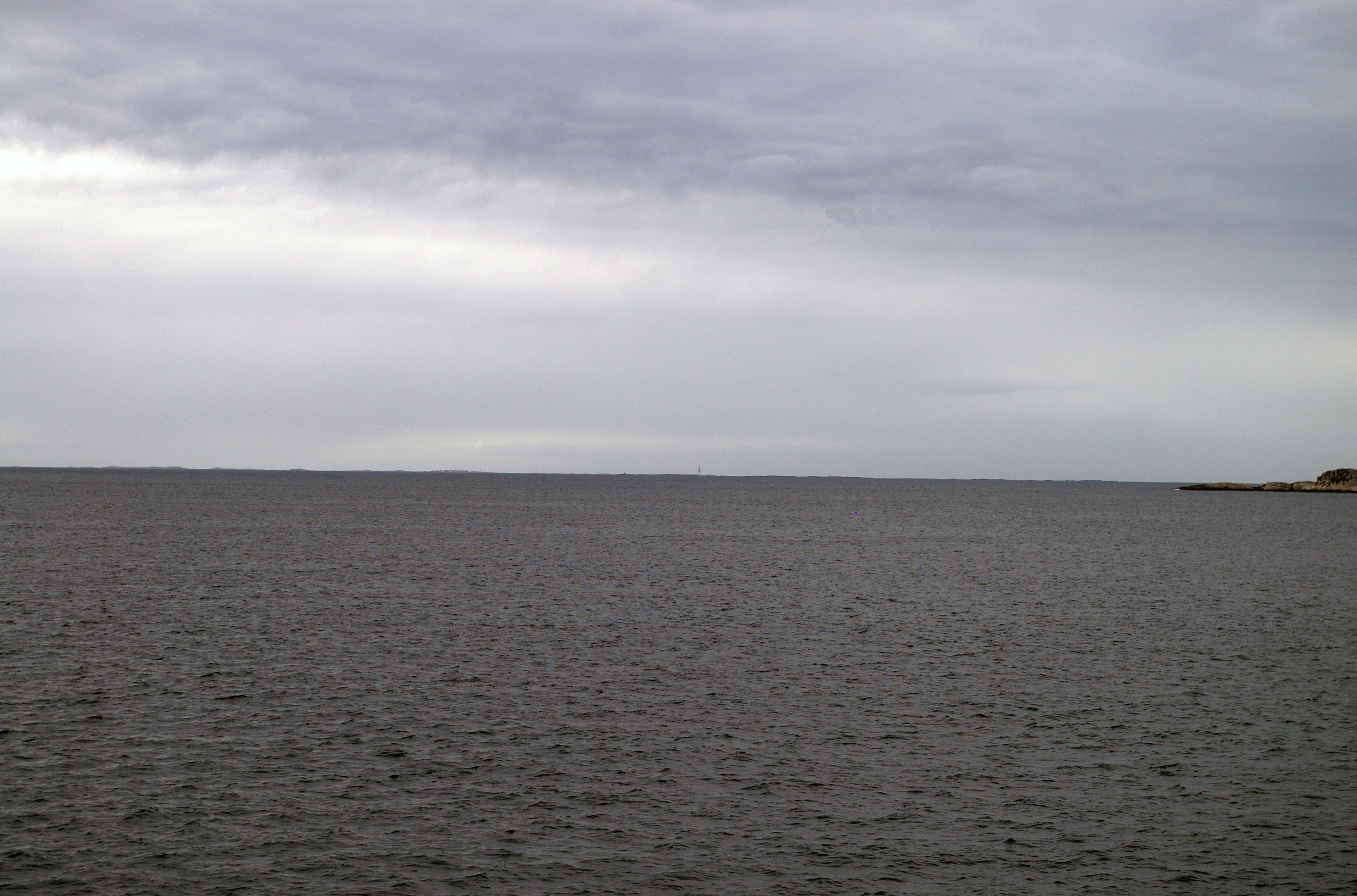 Bremsnesfjorden near Kristiansund. Grip can be seen in the distance in the middle of the horizon.